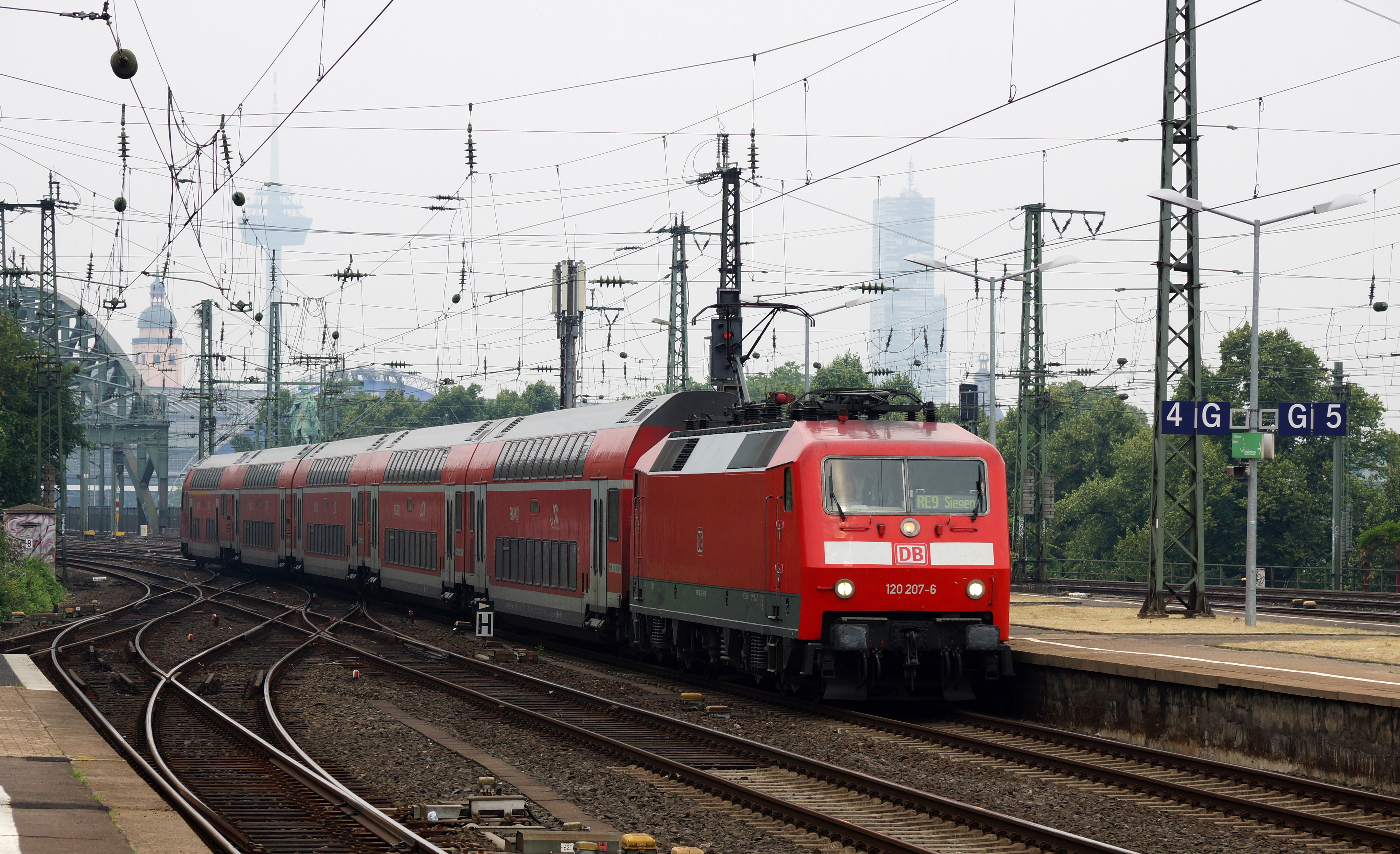 DB class 120.2 (120-207-6) passing the station Köln-Deutz.